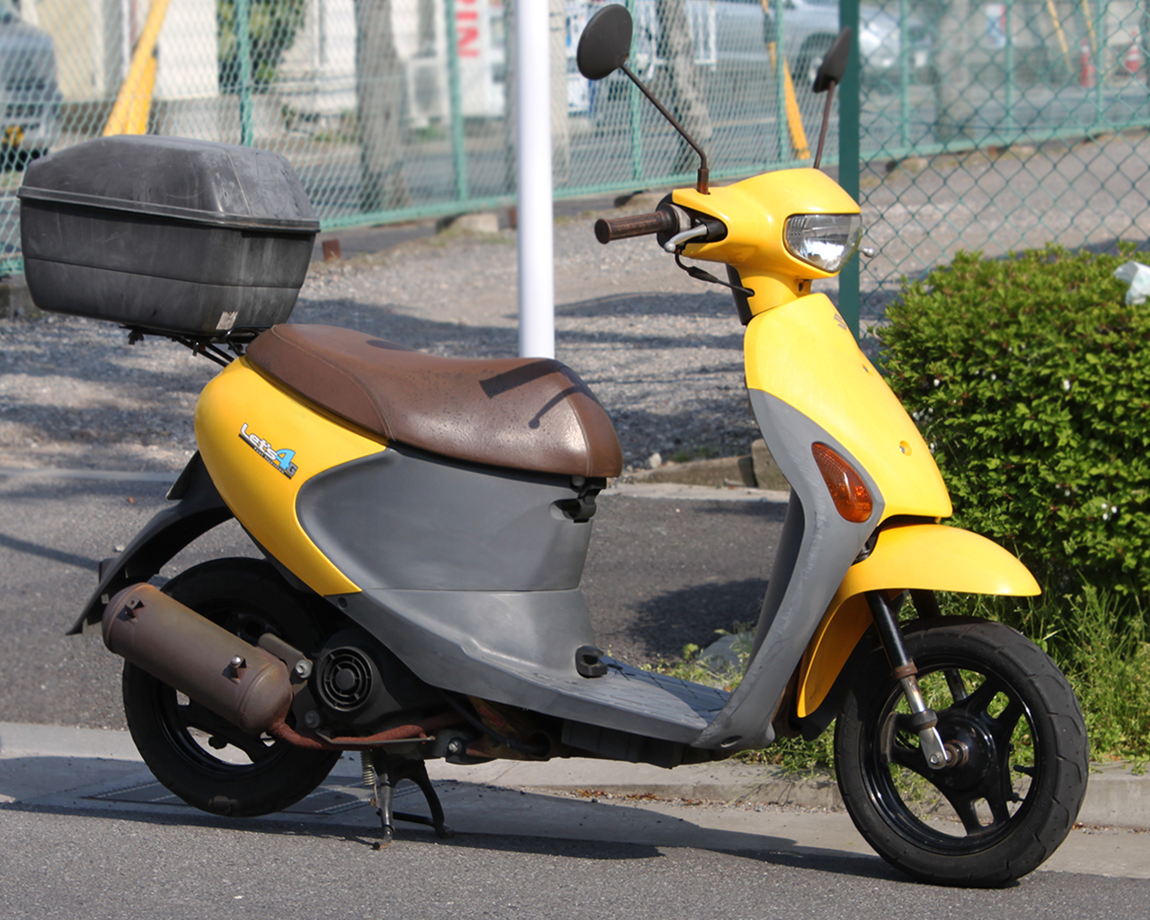 Suzuki Let's4G 2004